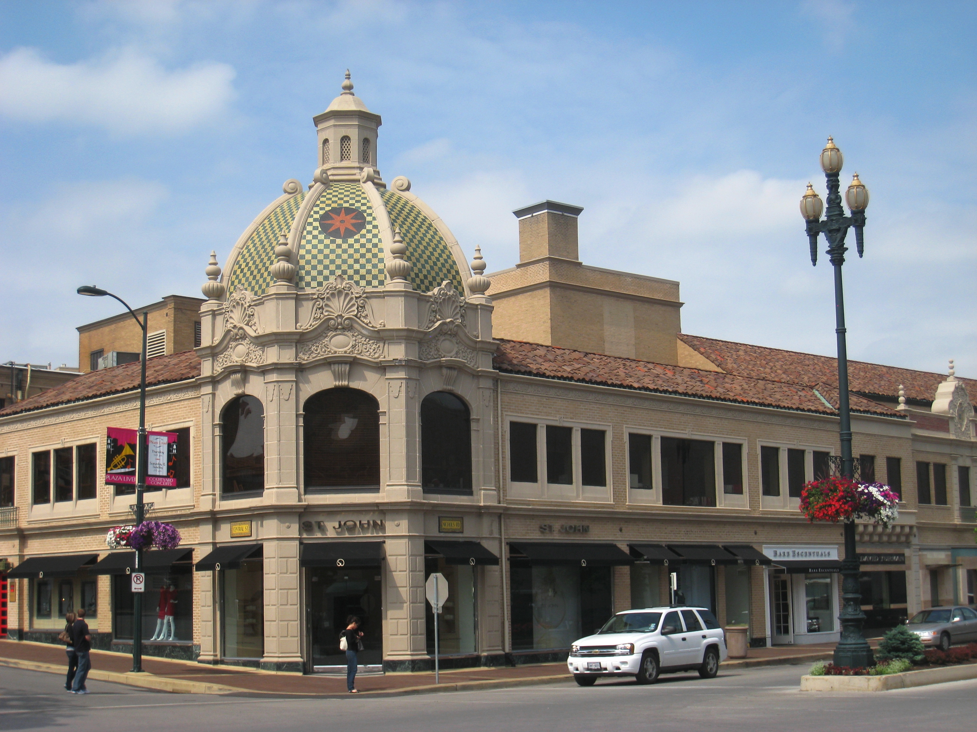 General view of Country Club Plaza, Kansas City, Missouri, USA.